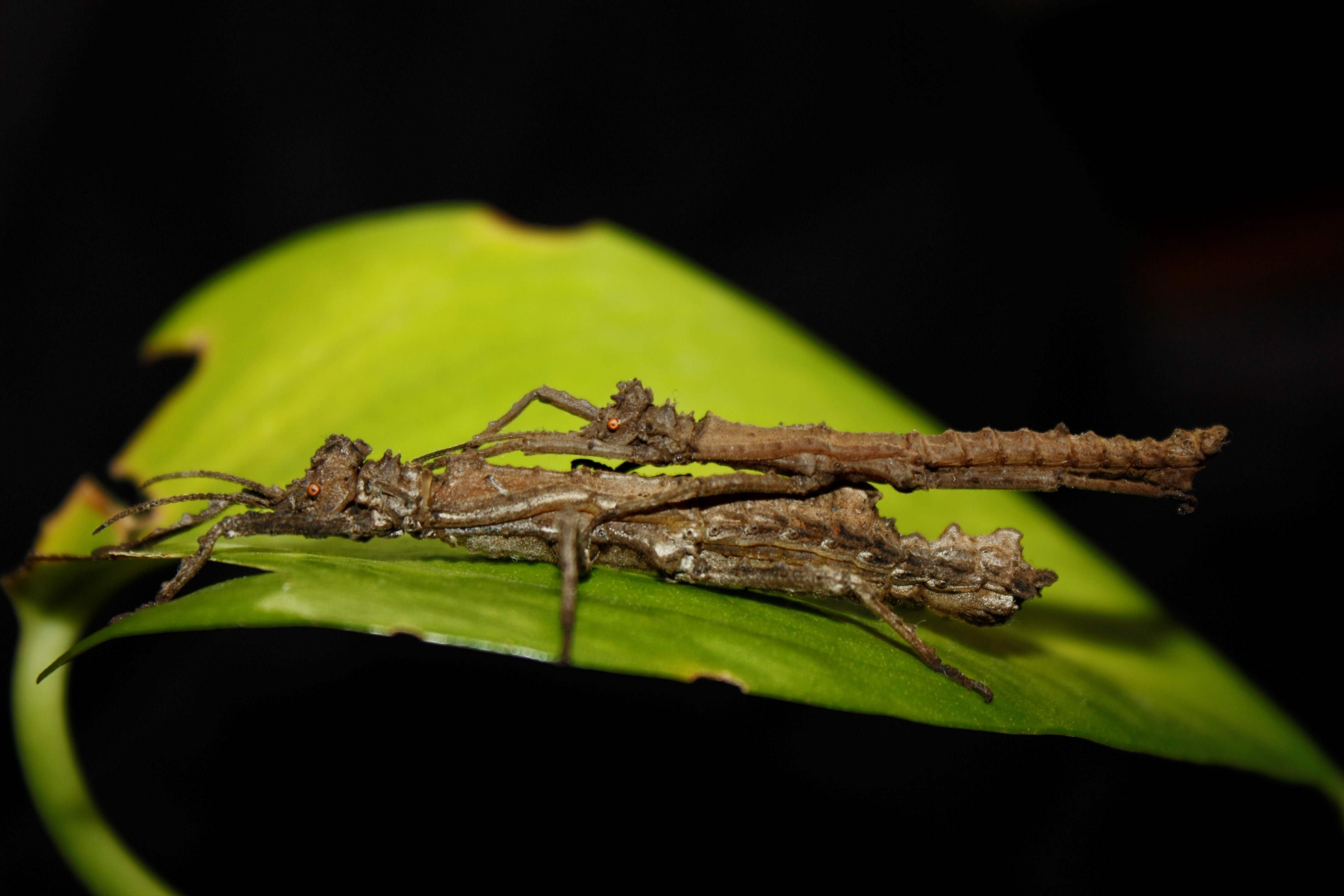 pair of Pylaemenes sepilokensis from Tawau